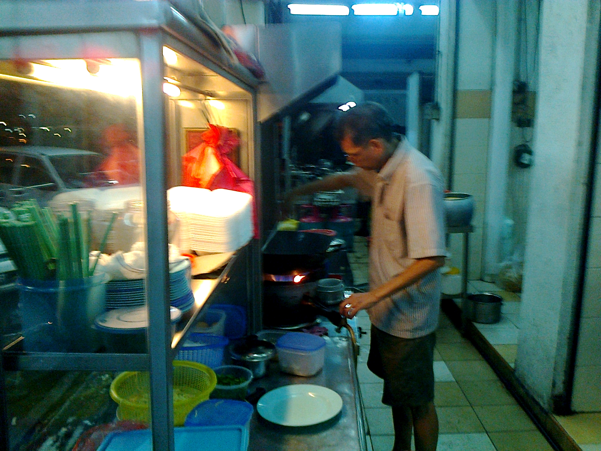 The picture shows a Malaysian-Chinese man making the Malaysian dish of Char Kuey Teow at a hawker centre in Kuala Lumpur.